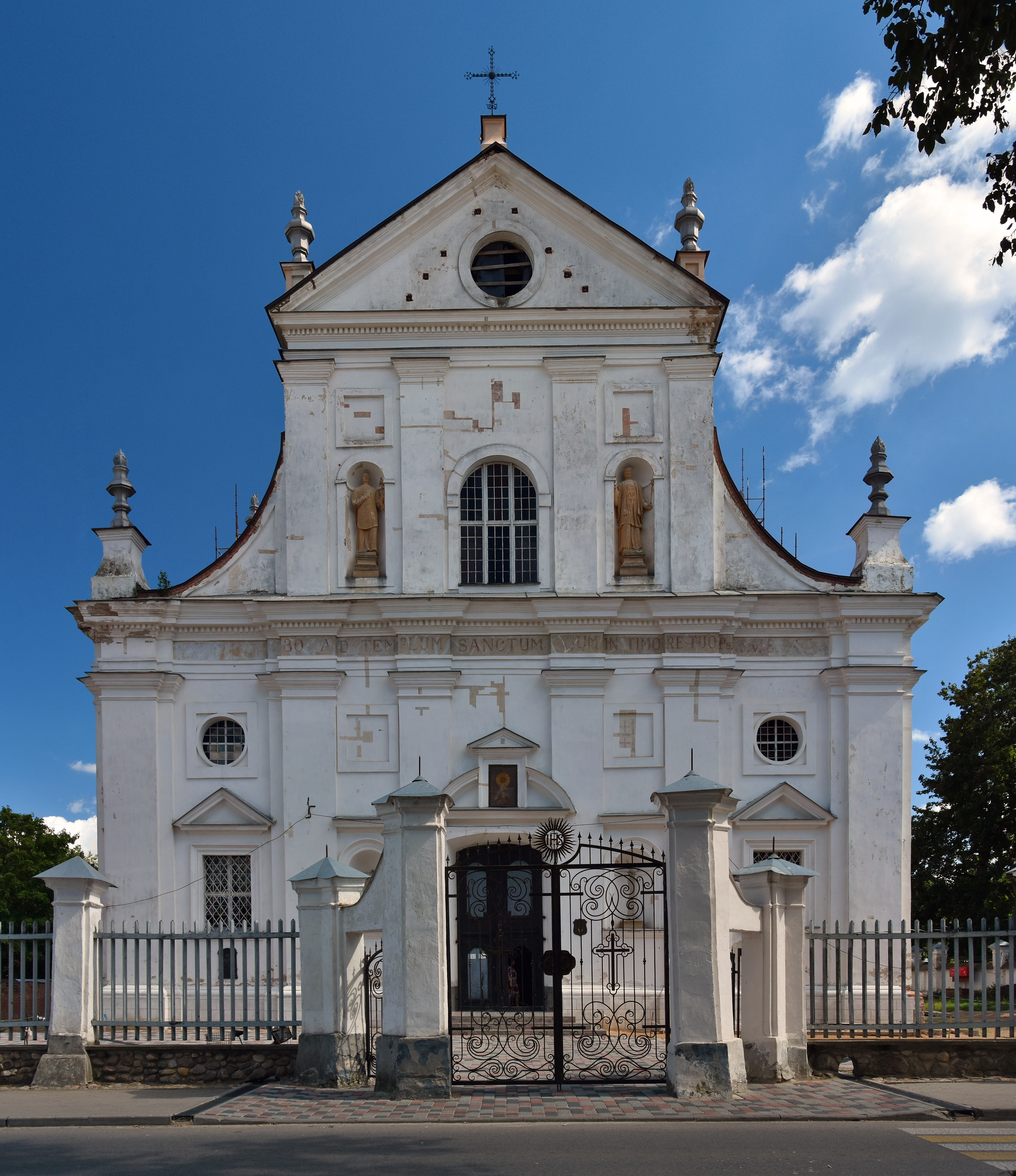 Exterior of the Church of the Corpus Christi in Nyasvizh, Belarus